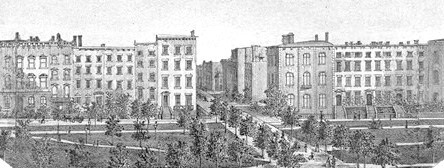 Includes photographic reproductions. Printmakers include Alexander Anderson, W.J. Bennett, C.G. Childs, A.J. Davis, A.B. Durand, Eliza Greatorex, George Hayward, John Rodgers & Imbert's Lithographic Office. Title from Calendar of Emmet Collection. EM11348